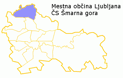 author: Navportus 22:09, 7 July 2007 (UTC) description: Šmarna gora, quarter in Ljubljana